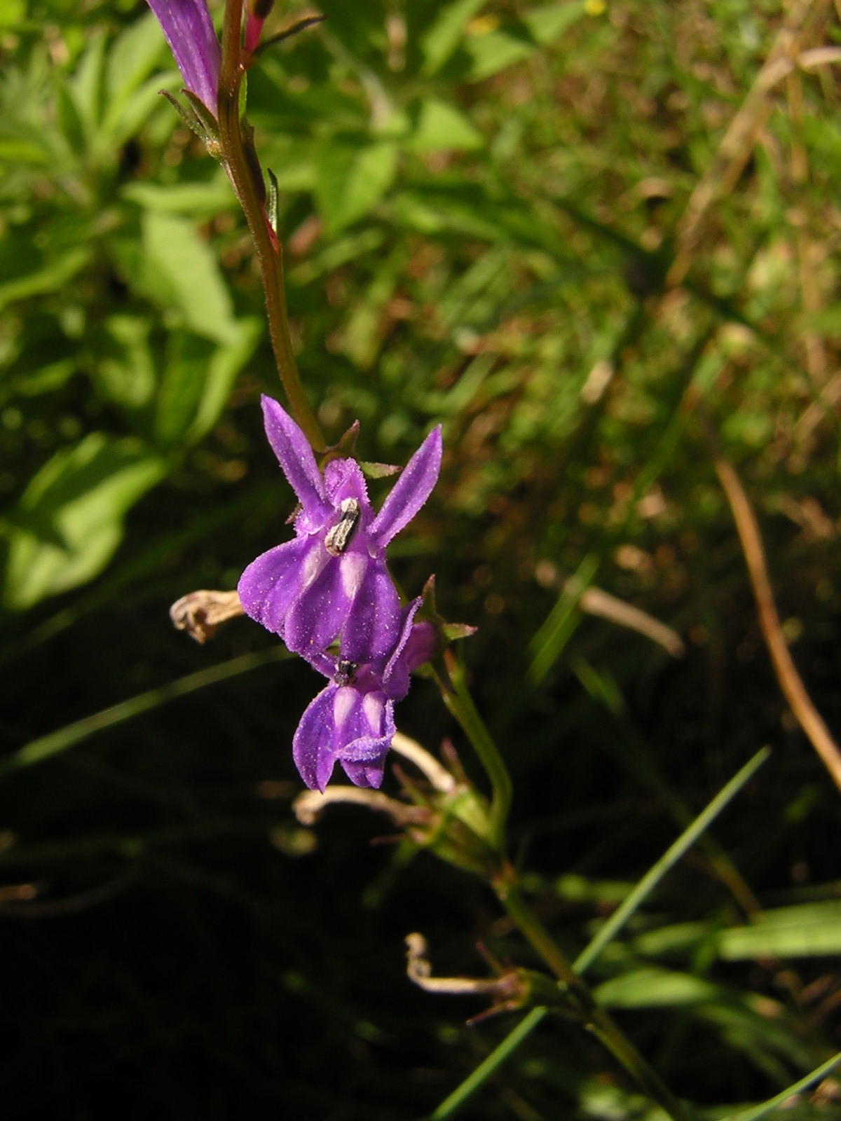 Lobelia urens Source : [1]